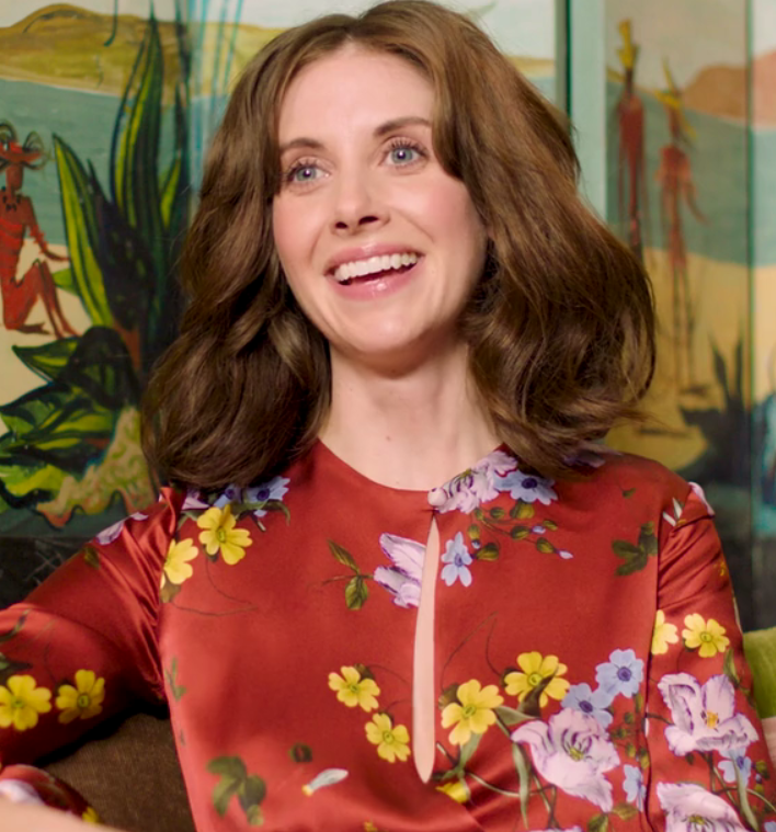 Alison Brie in an interview in 2017